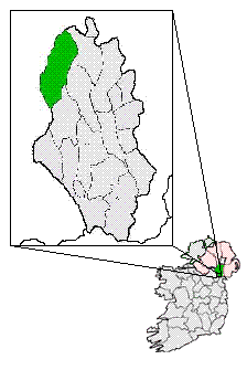 Aughanduff within the Parish of Forkhill, in Northern Ireland.